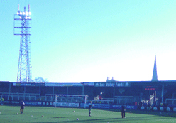 The Blackfriars End (now closed) of Edgar Street with the cathedral and church in the background